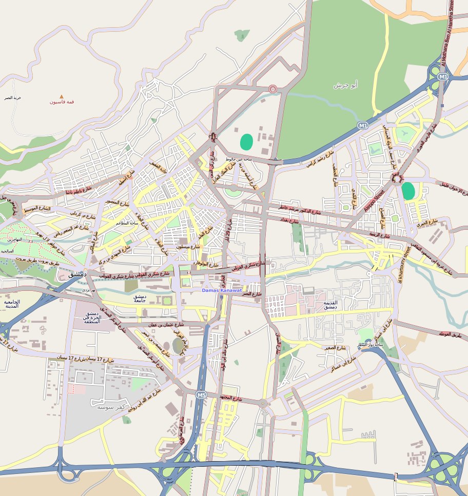 Map of central Damascus — Syria. Geographic limits of the map: N: 33.543° S: 33.4885° W: 36.265° E: 36.3281°